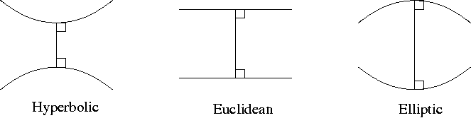 differences b/t Euclidean and non-Eucl. geometries